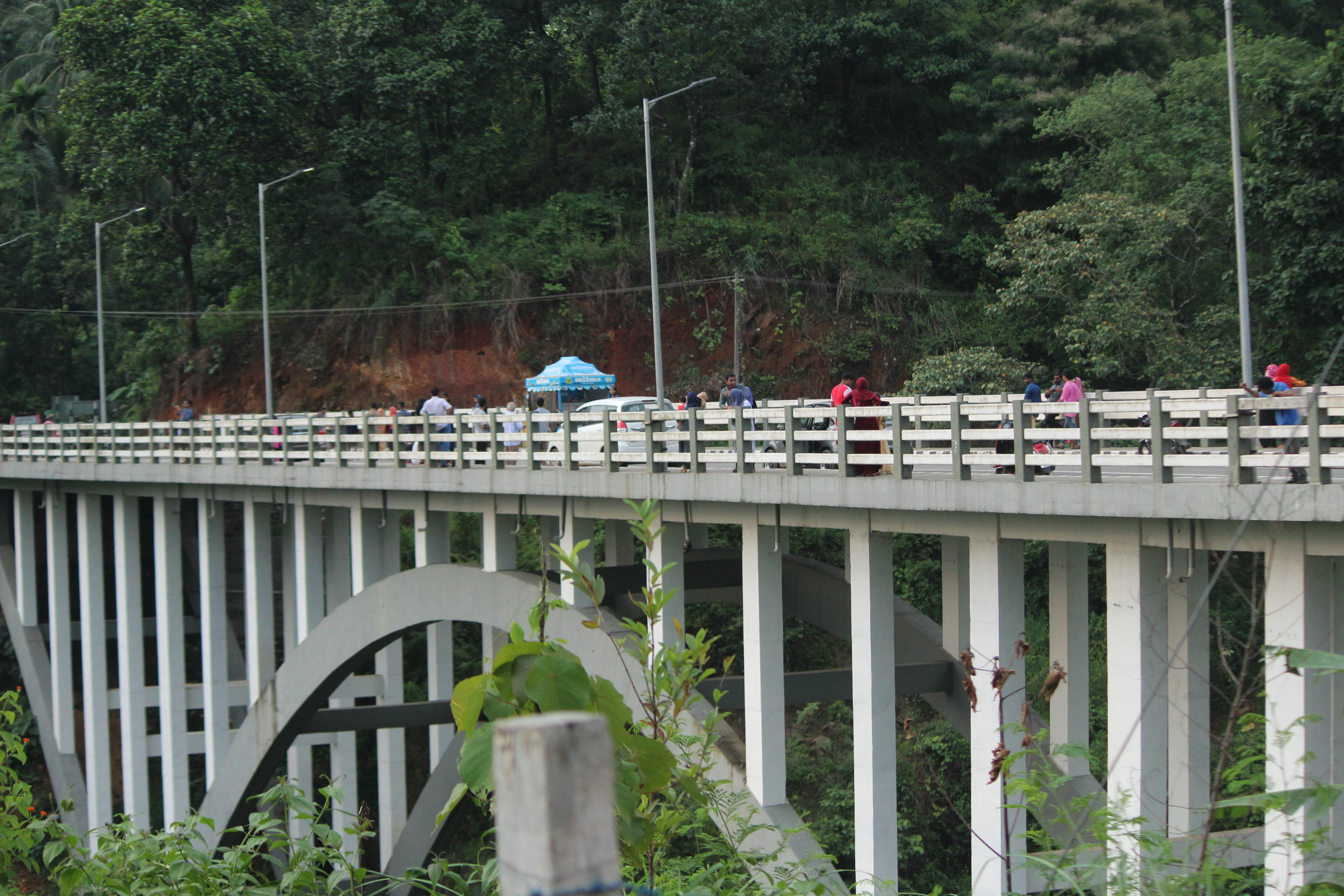 The bridge connecting Kozhikode and Wayanadu district at Thusharagiri